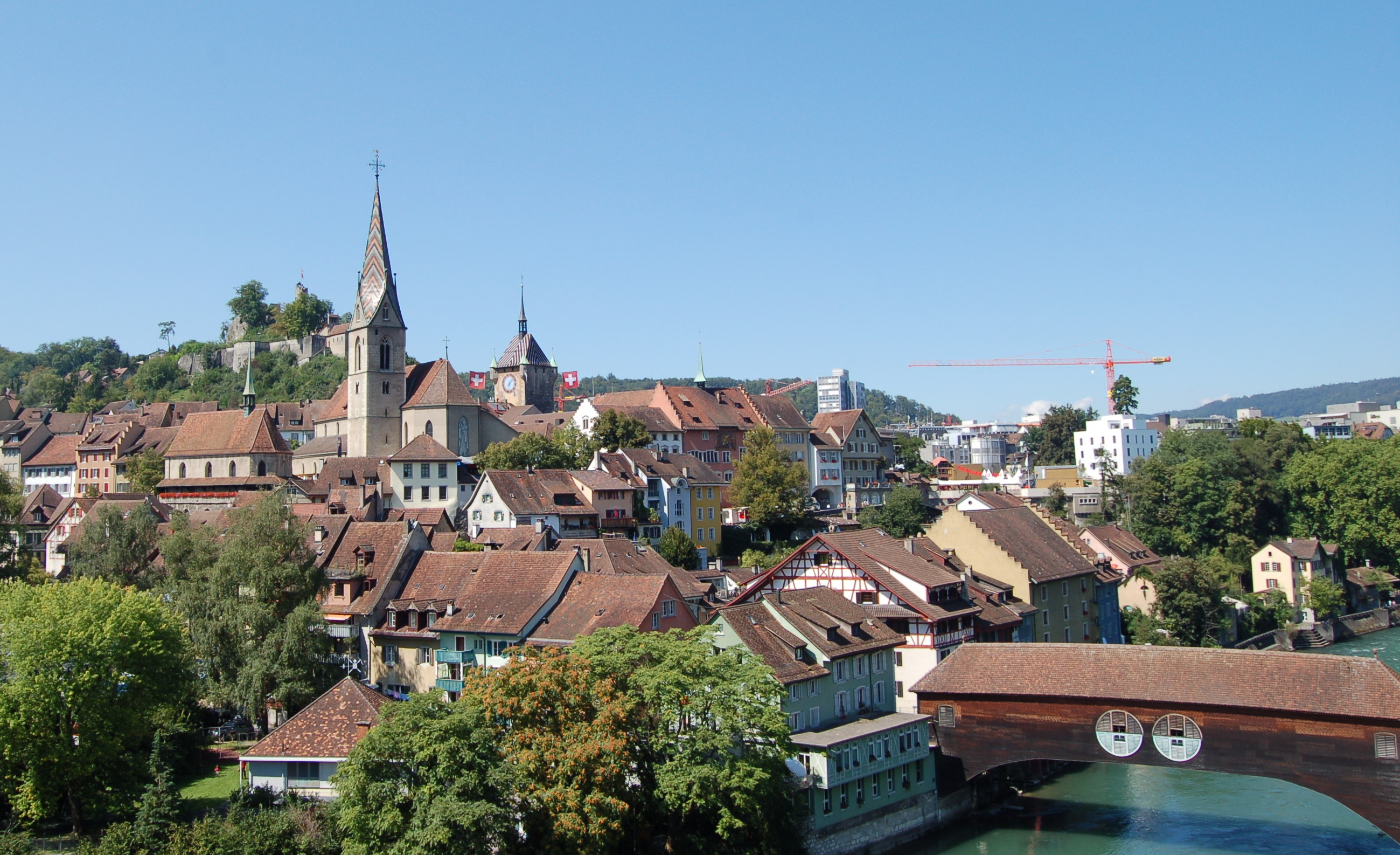 Baden, Switzerland. Old town view. Taken from Hochbrücke. Wooden bridge with a roof, church, town hall, ruins of castle.